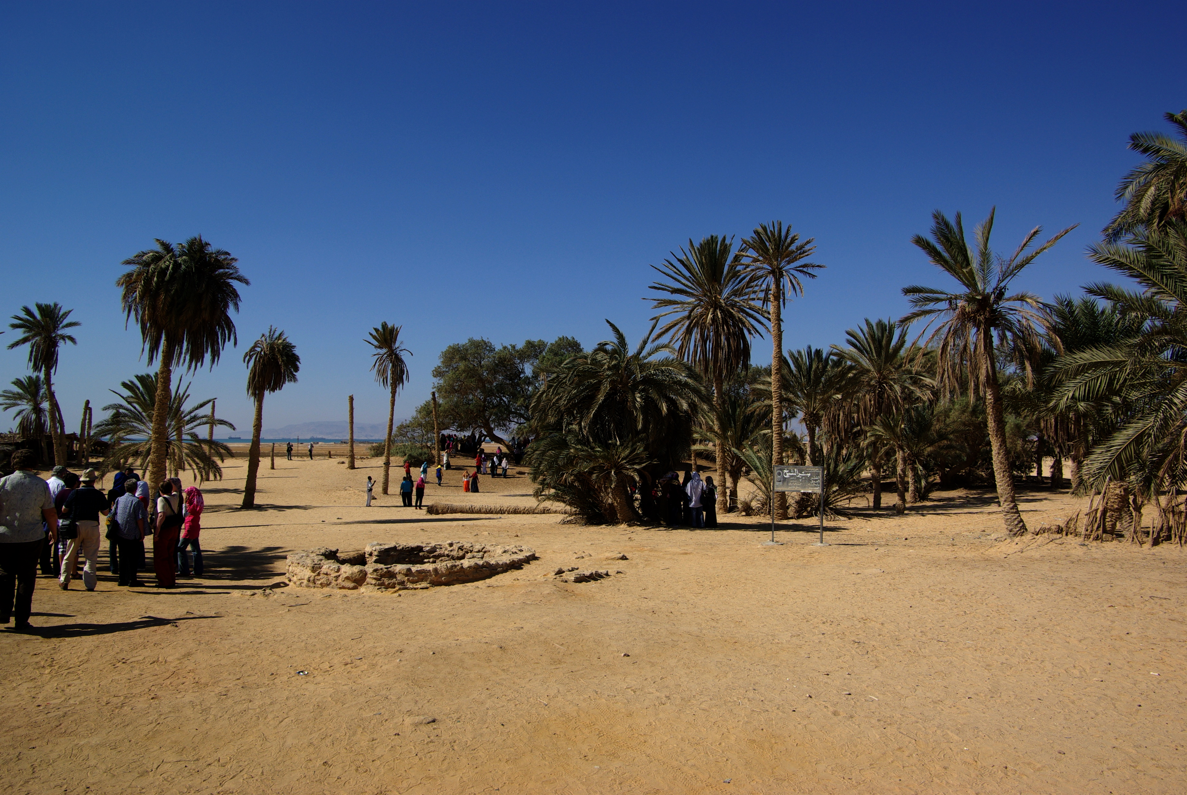 Moses spring, Oyun Musa in Egypt